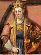 Elisabeth of Poland, Duchess of Pomerania